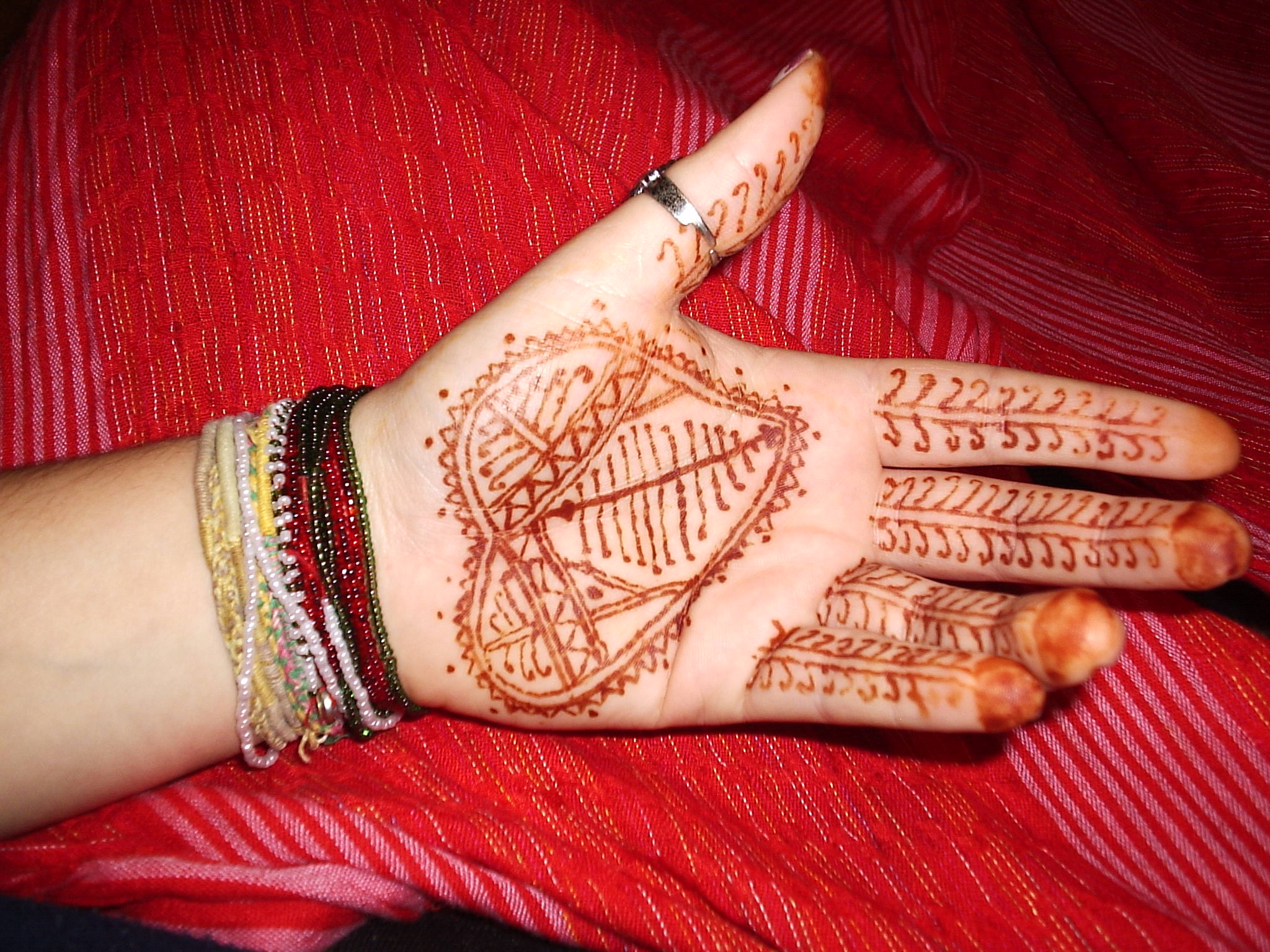 An african mehndi designe on a palm (berber heart)